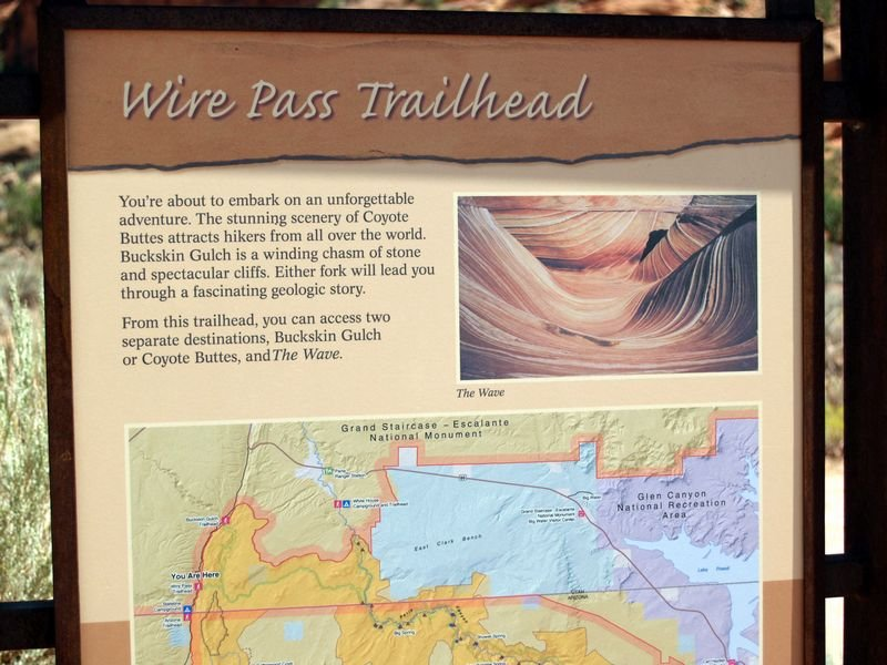 Photo of one of the outdoor public signs at the Wire Pass Trailhead.